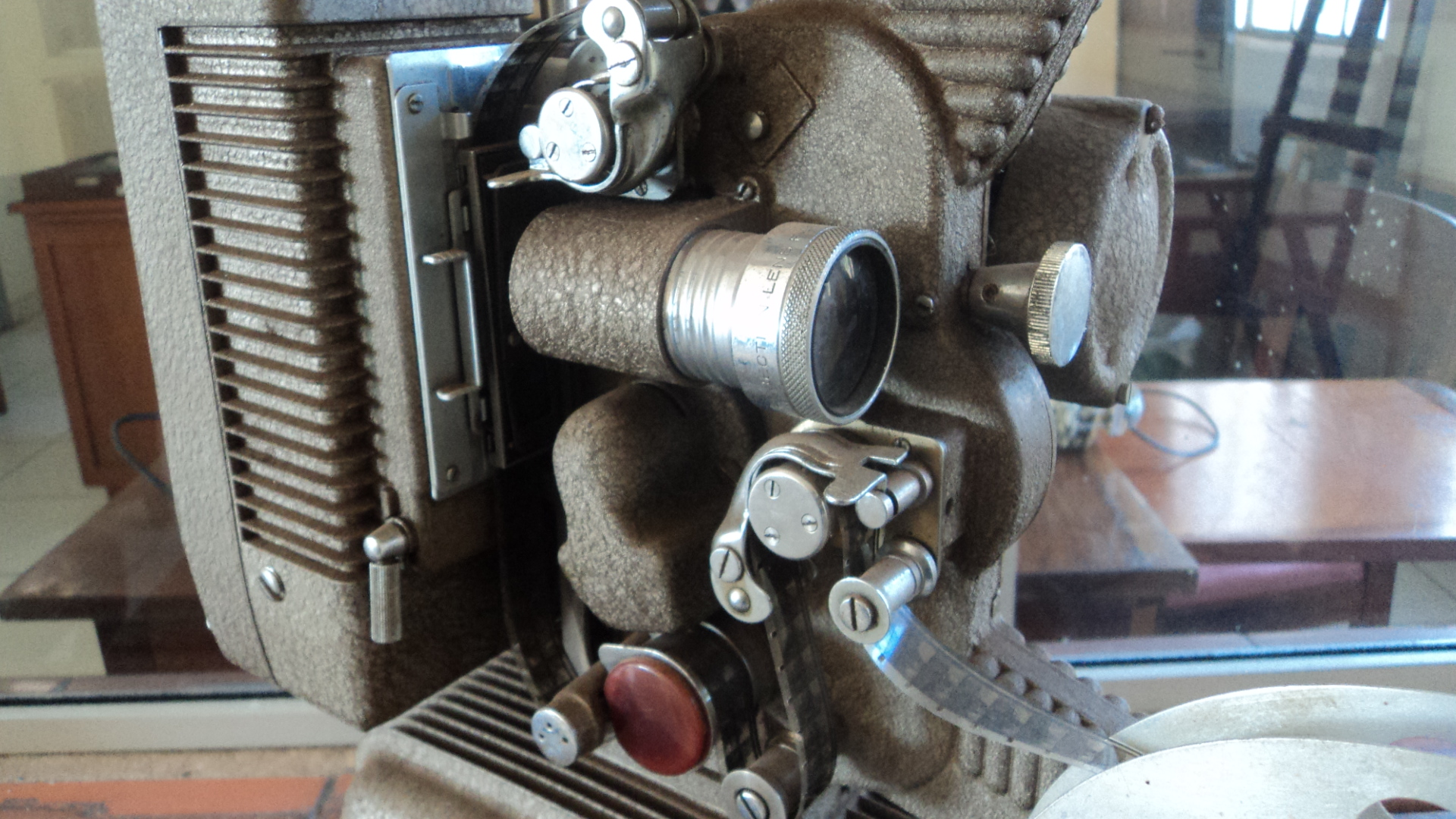 16mm Projector